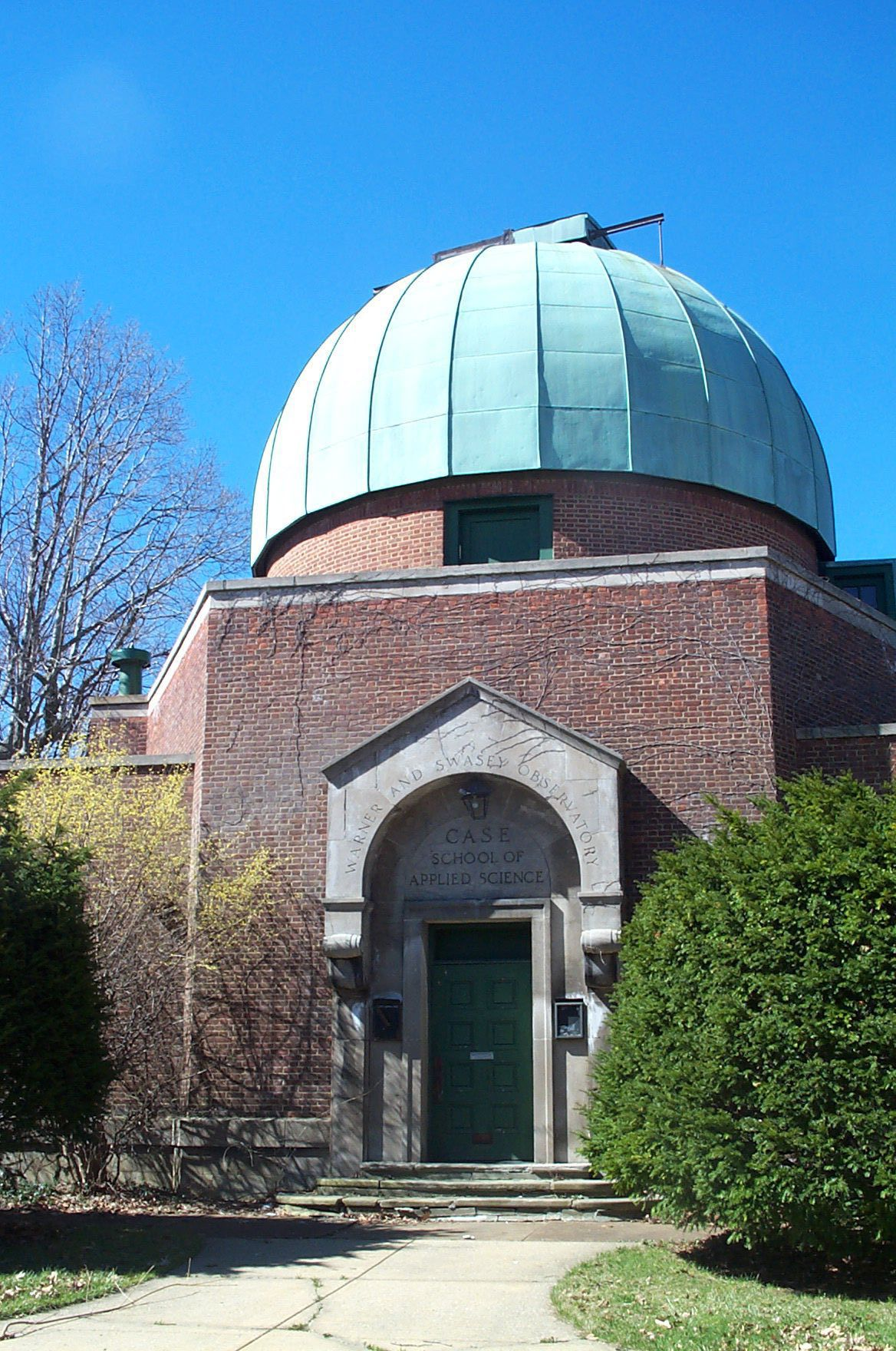 The former Warner and Swasey Observatory in East Cleveland, Ohio